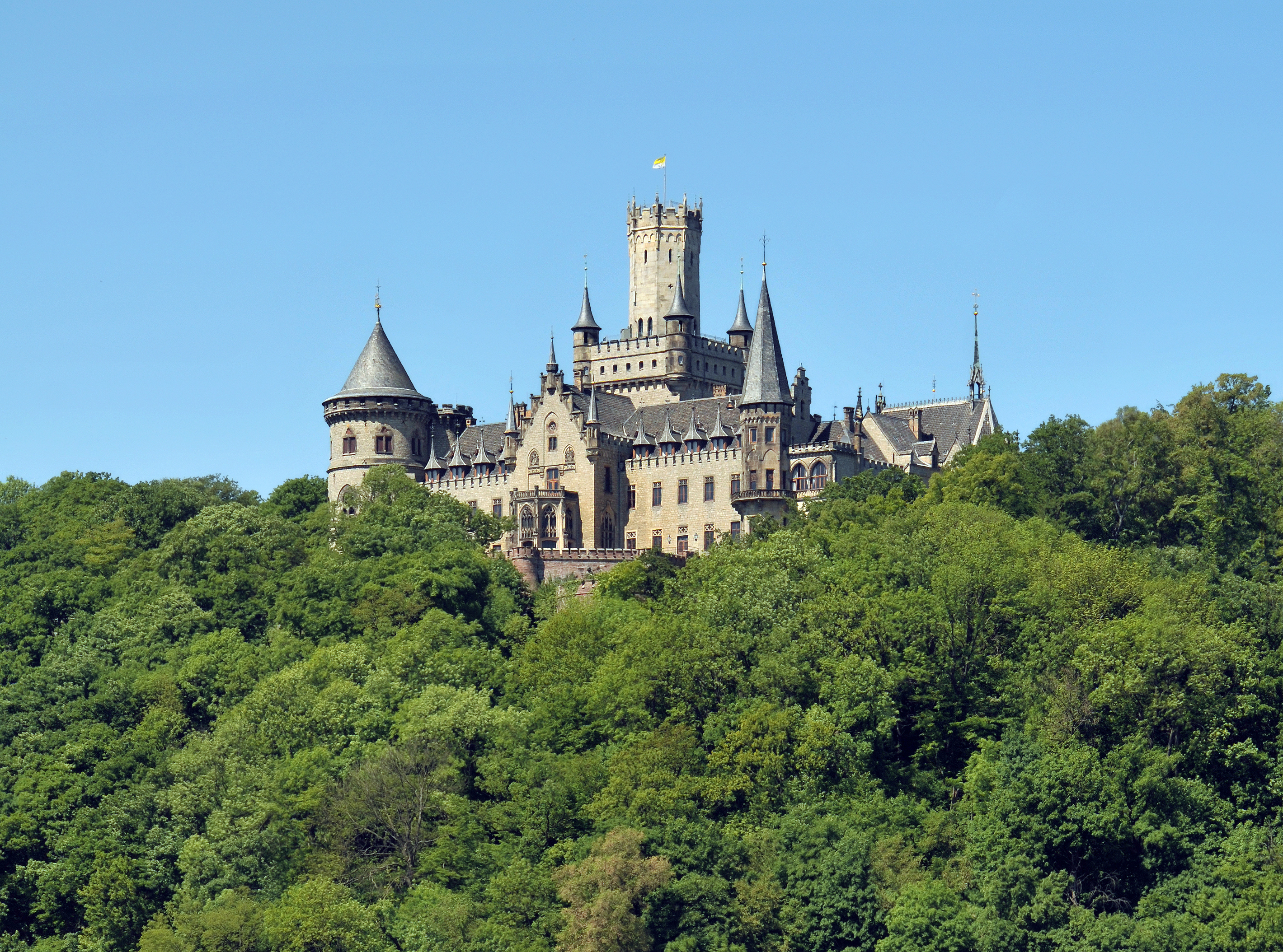 Marienburg Castle is a Gothic revival castle in Hanover, Lower Saxony, Germany, built by Marie of Saxe-Altenburg, Queen of Hanover. The castle mustn't be confused with the Marienburg near Hildesheim.